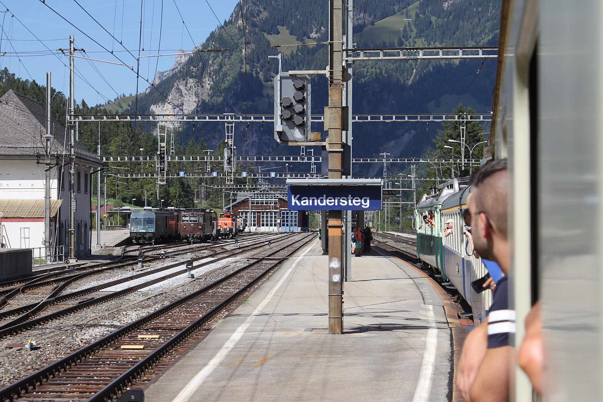 EXT 31161 from Brig to Burgdorf (lead by BLS Be 4/4 761) arriving at Kandersteg railway station.